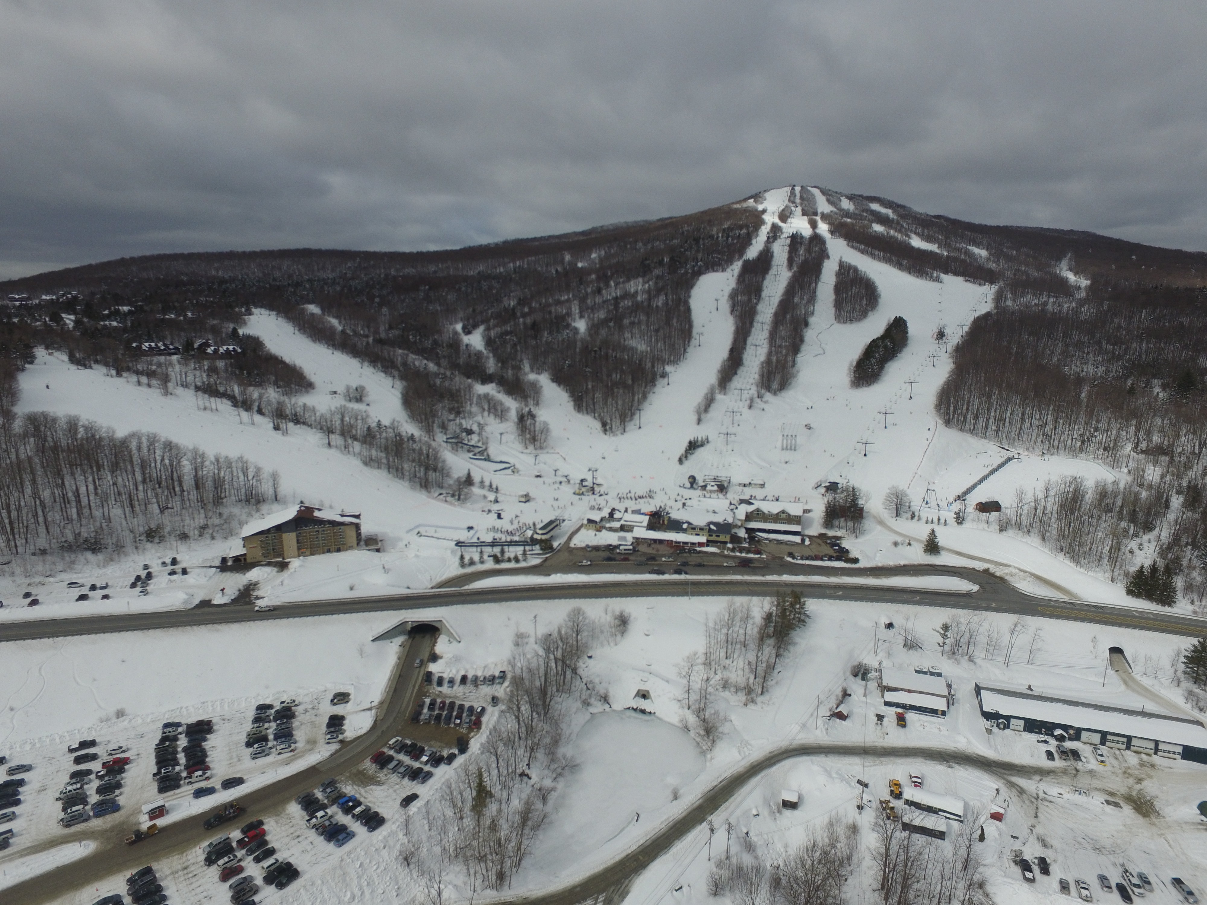 An aerial photo of Bromley Mountain in Peru, Vermont